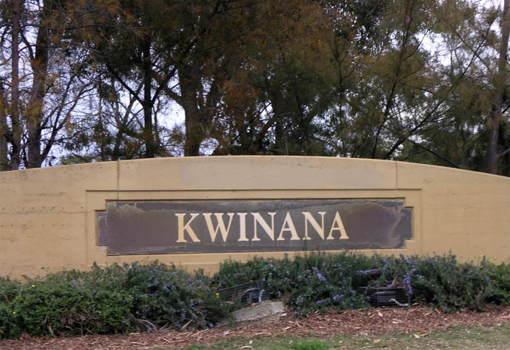 Das Ortsschild Kwinanas. (Kwinana's place name sign.)